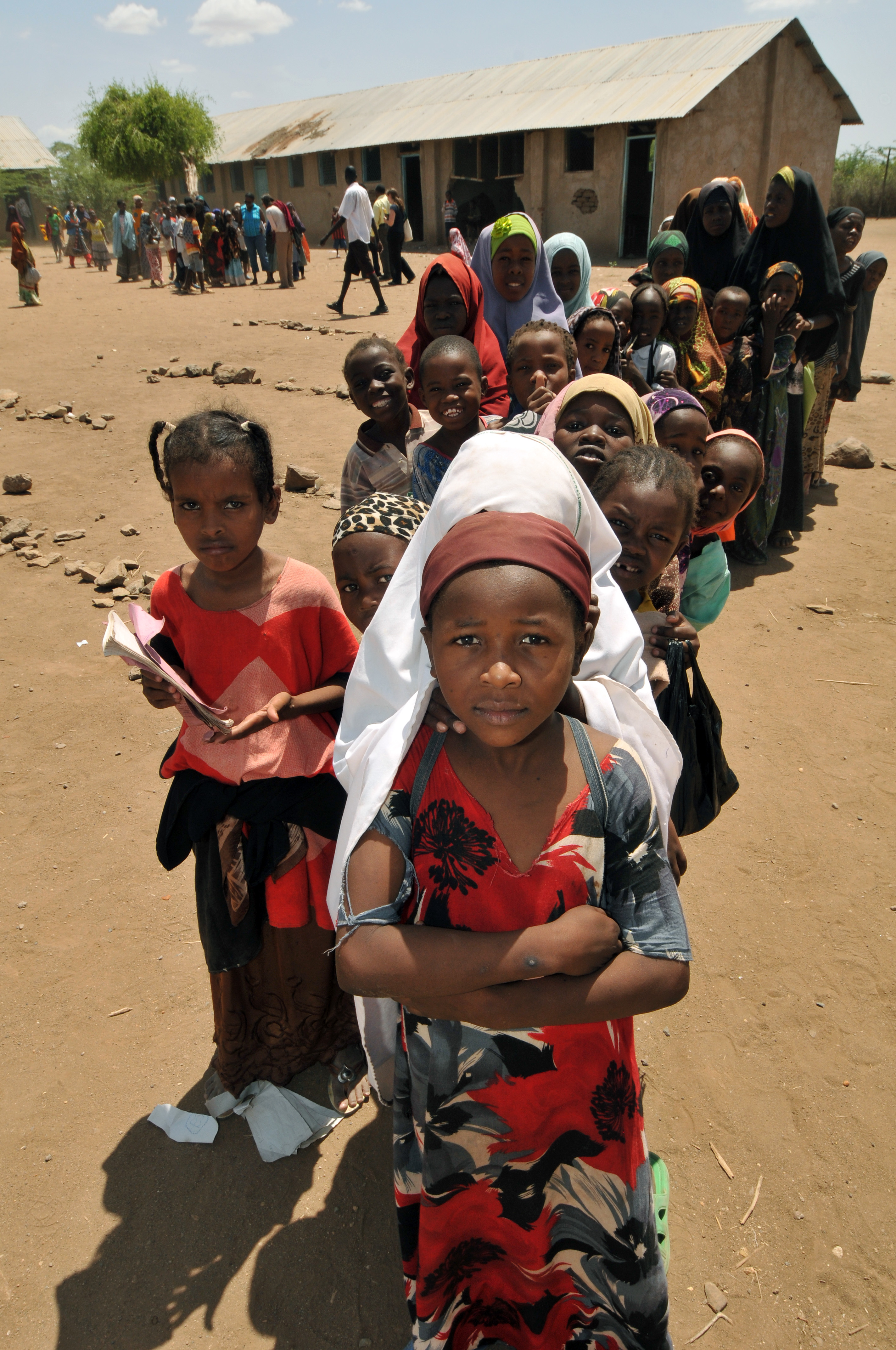 (2011 Education for All Global Monitoring Report) -School children in Kakuma refugee camp, KenyaRomână: Raportul de monitorizare „Educație pentru toți”, 2011: Elevi în tabăra de refugiați din Kakuma, Kenya